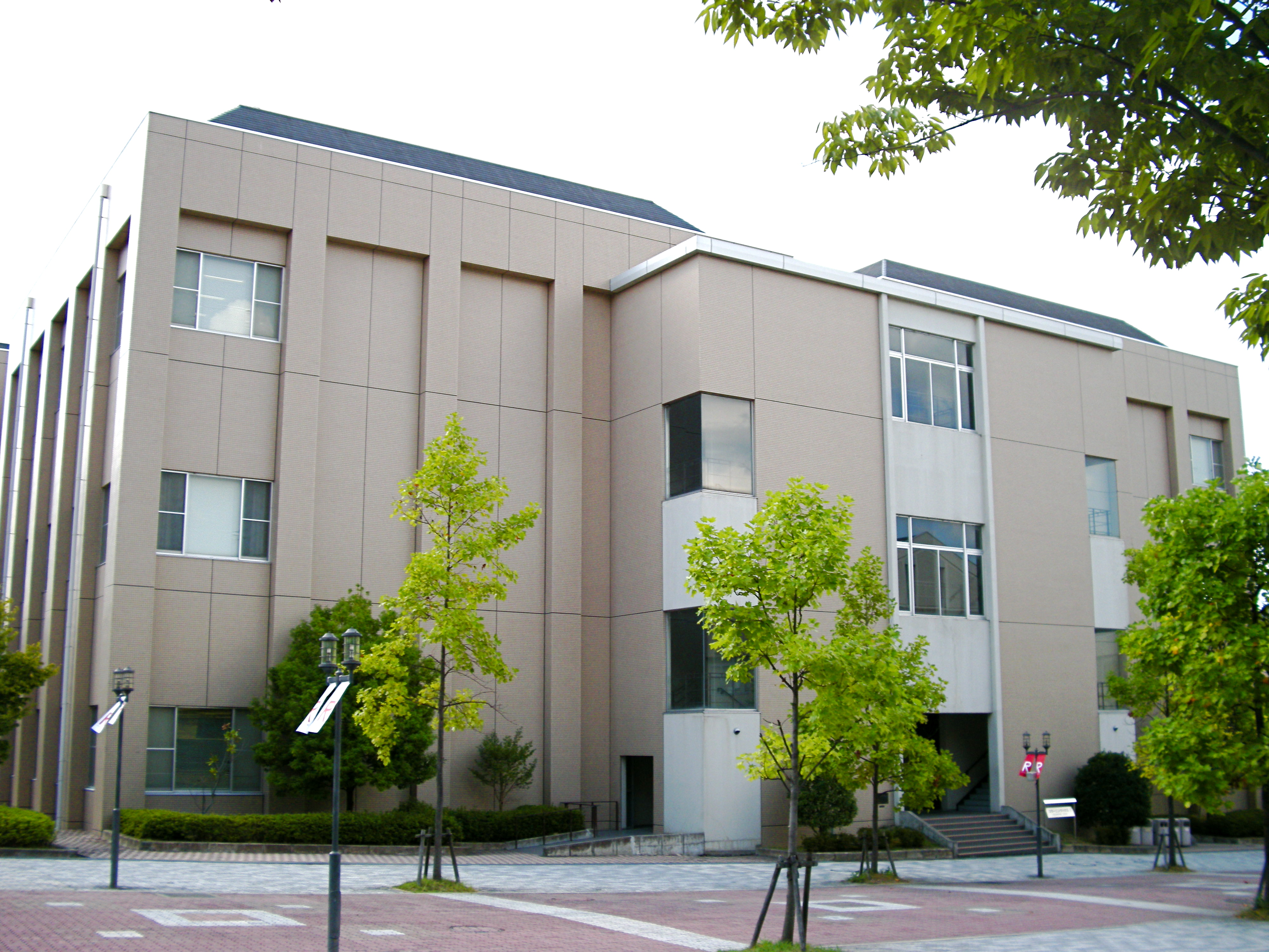 Co-Learning House I (Biwako Kusatsu Campus, Ritsumeikan University, Shiga, Japan)